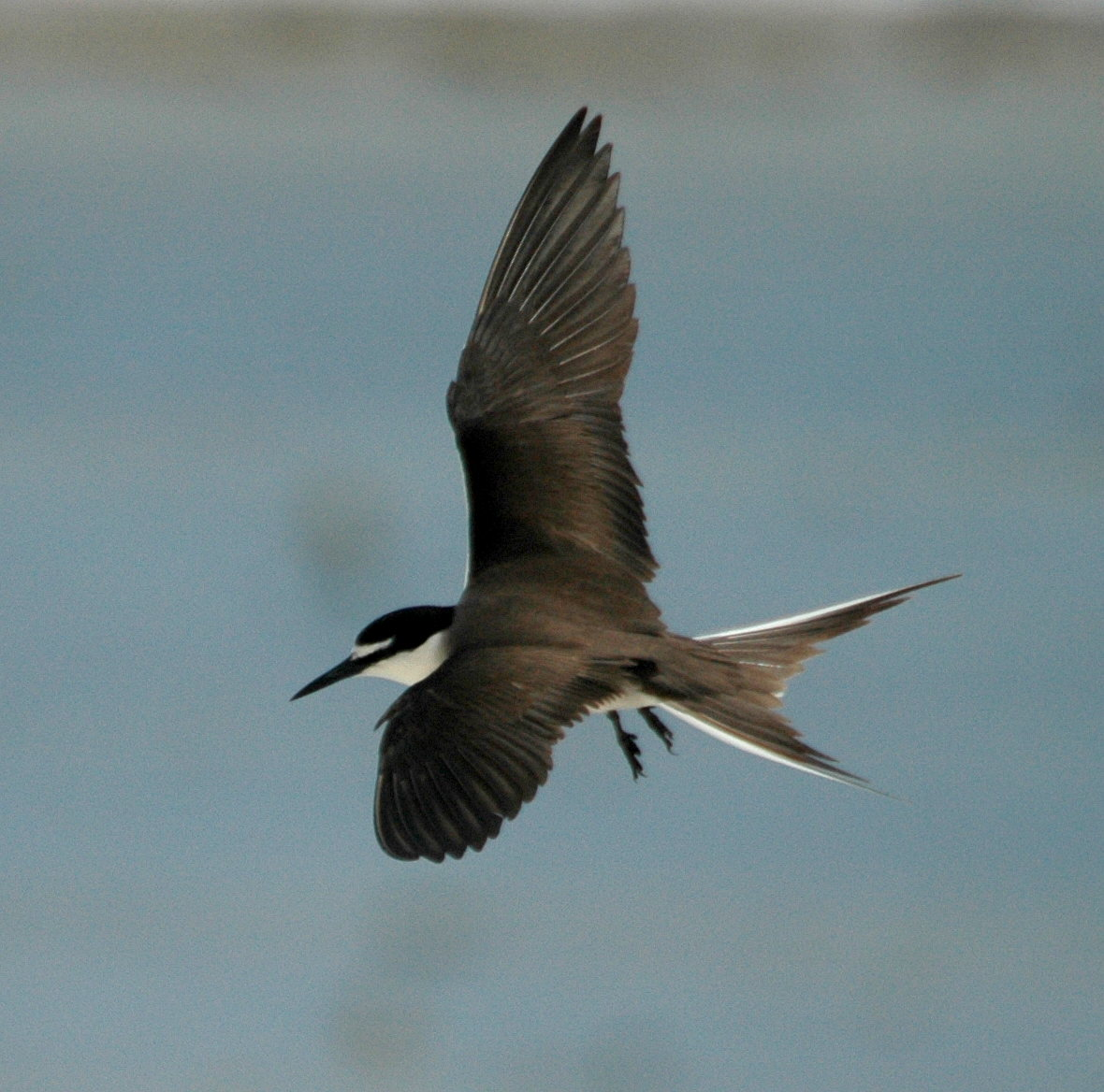 Bridled Tern (Onychoprion anaethetus) Lady Elliot Island, SE Queensland, Australia